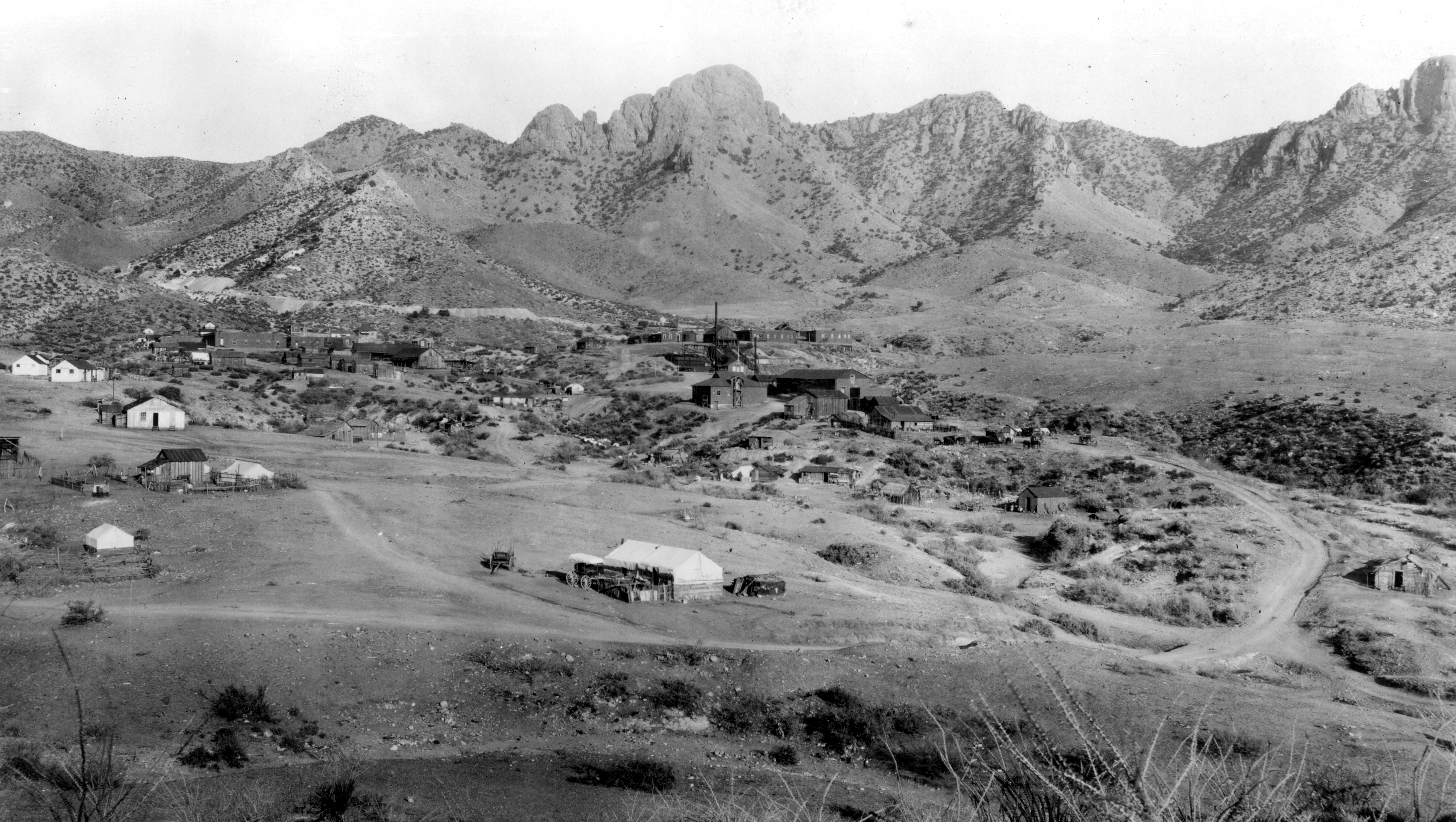 Helvetia Camp, basin and mines. Crest of Santa Rita Mountains in background. Looking east from ridge of Tiptop Mountain, at an elevation of 4,300 feet. From left starting at second peak in upper left, thru the center of the following mine locations are identified: Heavy Weight, Copper World, Mohawk, Leader, Isle Royal, Old Dick, and Omega. Pima County, Arizona. 1909.